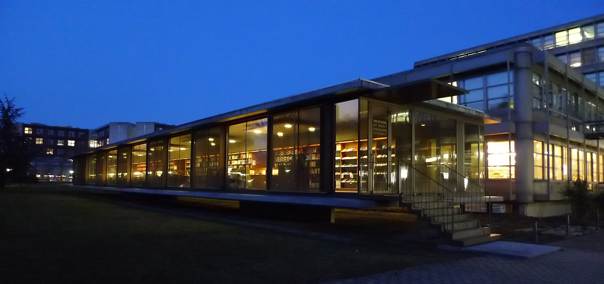 Édouard Fleuret Law Library, University of Lausanne, Switzerland